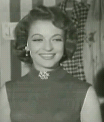 Cropped screenshot of Maricruz Olivier in the film Angelitos del trapecio.